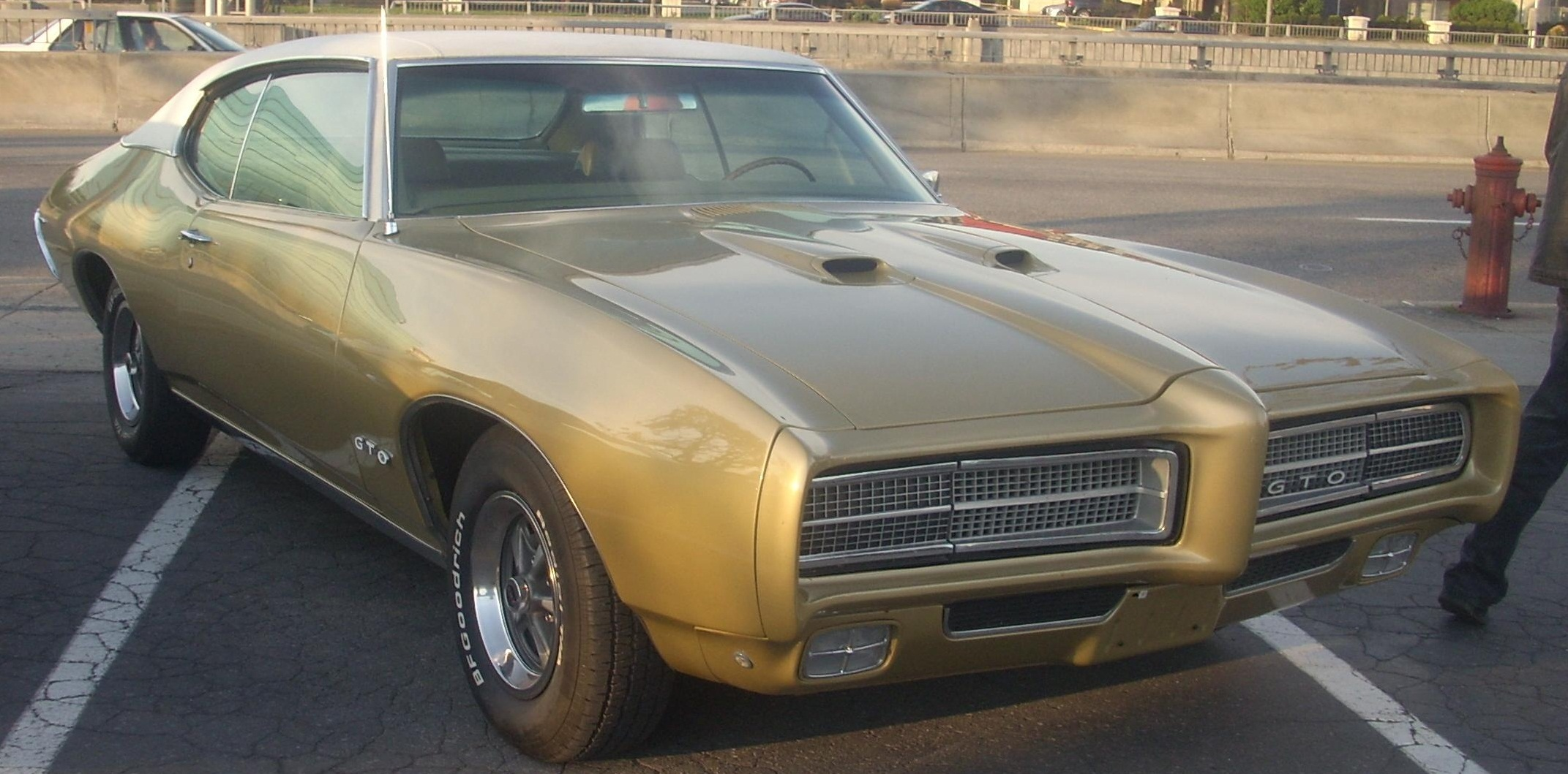 1969 Pontiac GTO Coupe with Rally II wheels photographed in Montreal, Quebec, Canada at Gibeau Orange Julep.